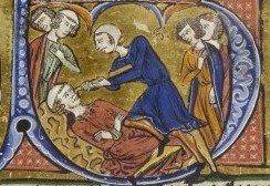 Miniature: wedding of Guy and Sibylla; blinding of Alexios Komnenos